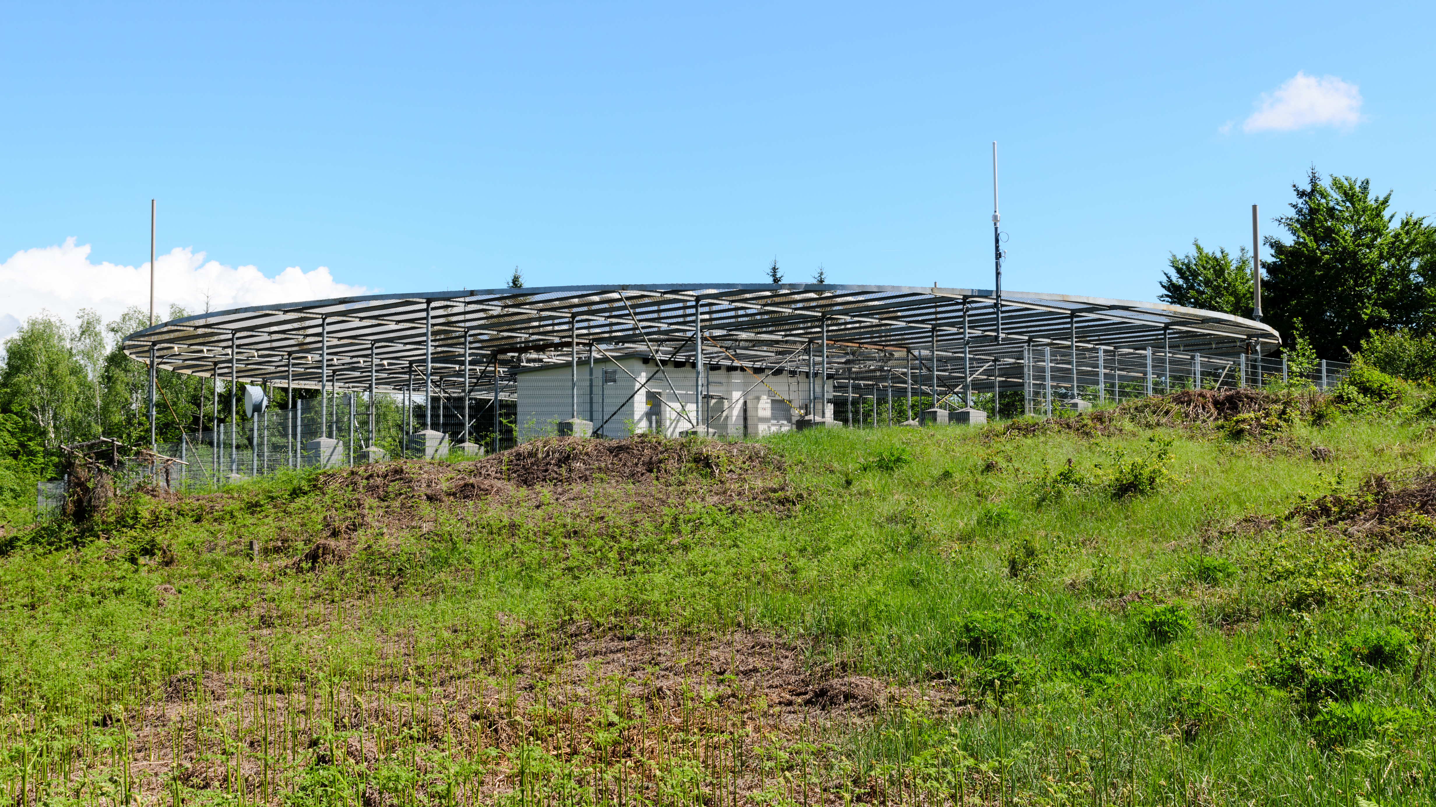 Klagenfurt VOR-DME (KFT) on Kitzelsberg, Carinthia, Austria broadcasting on a frequency of 113,10 MHz situated close to Klagenfurt Airport (LOWK)